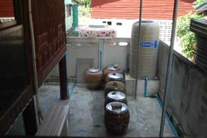 ทุกบ้านนิยมมีโอ่งไว้กักเก็บน้ำเนื่องจากอยู่ใกล้แหล่งน้ำ แม่น้ำท่าจีน